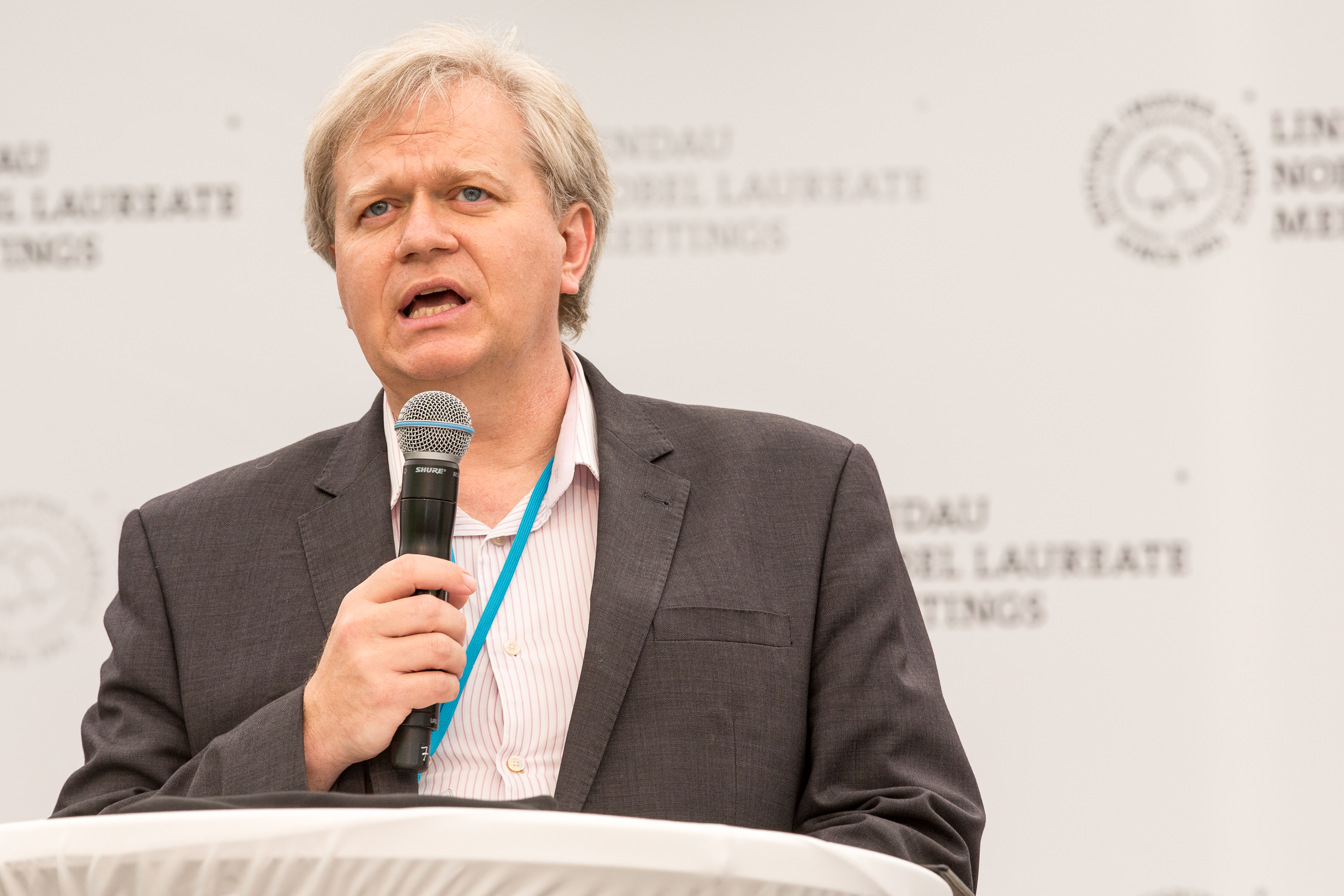 Nobel laureate Brian Schmidt reading the Mainau Declaration 2015 on Climate Change on Mainau Island, Germany on the closing day of the 65th Lindau Nobel Laureate Meeting.